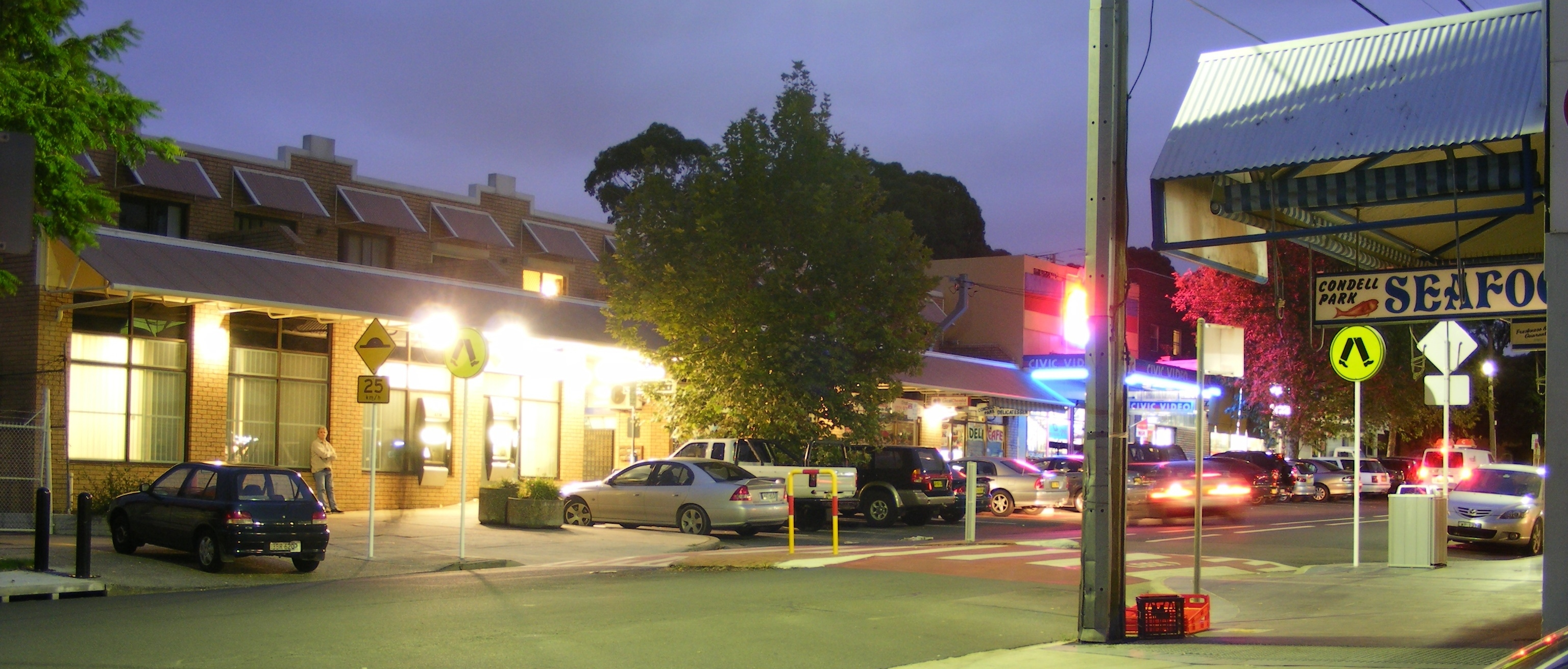 Nightlife in the City of Bankstown